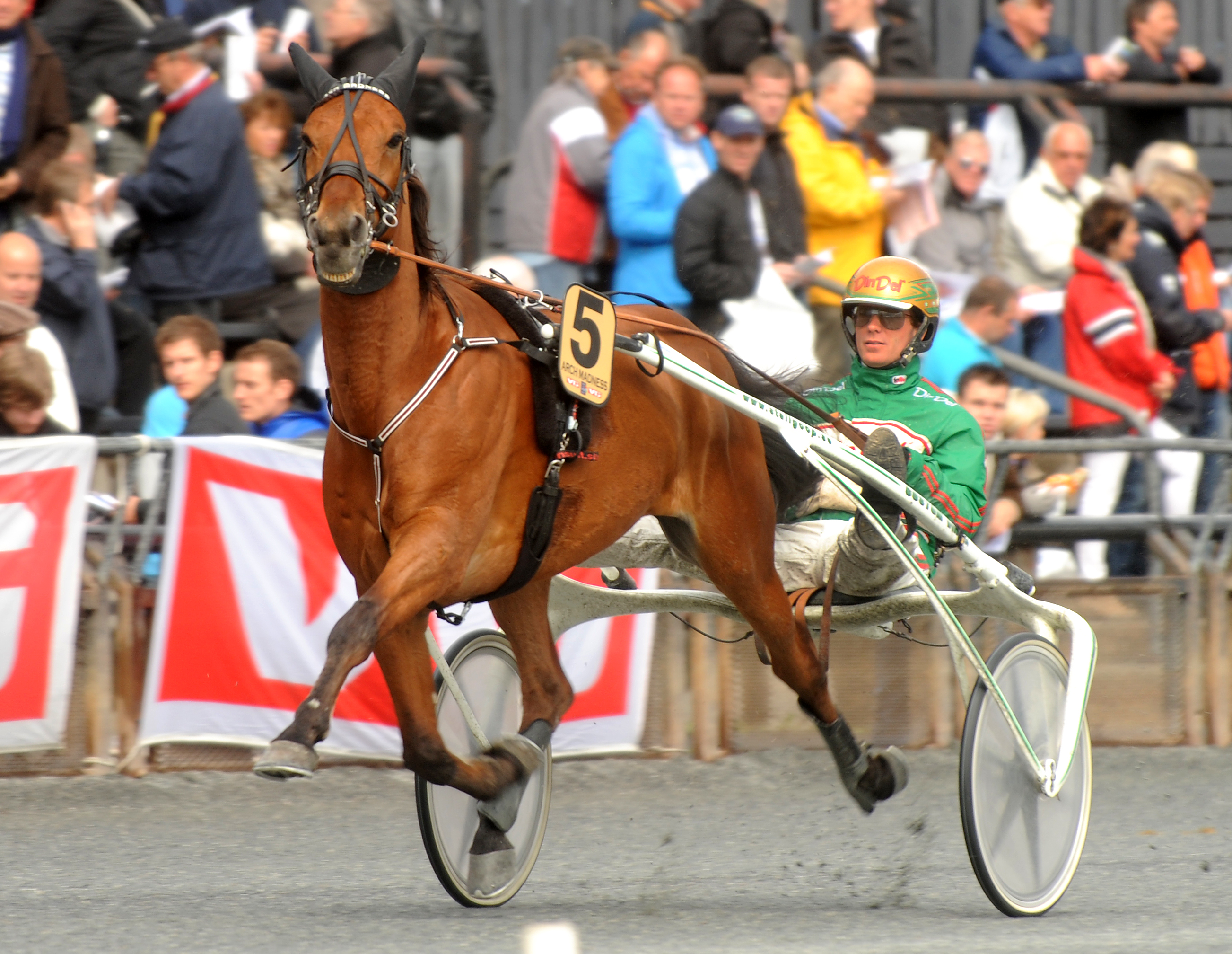 Trotting horse Arch Madness and driver Björn Goop.